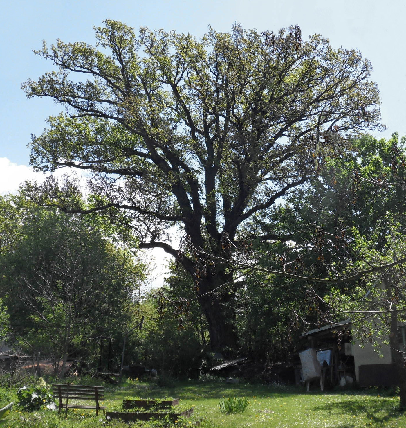 Pedunculate Oak in Zhůř, view from northwest